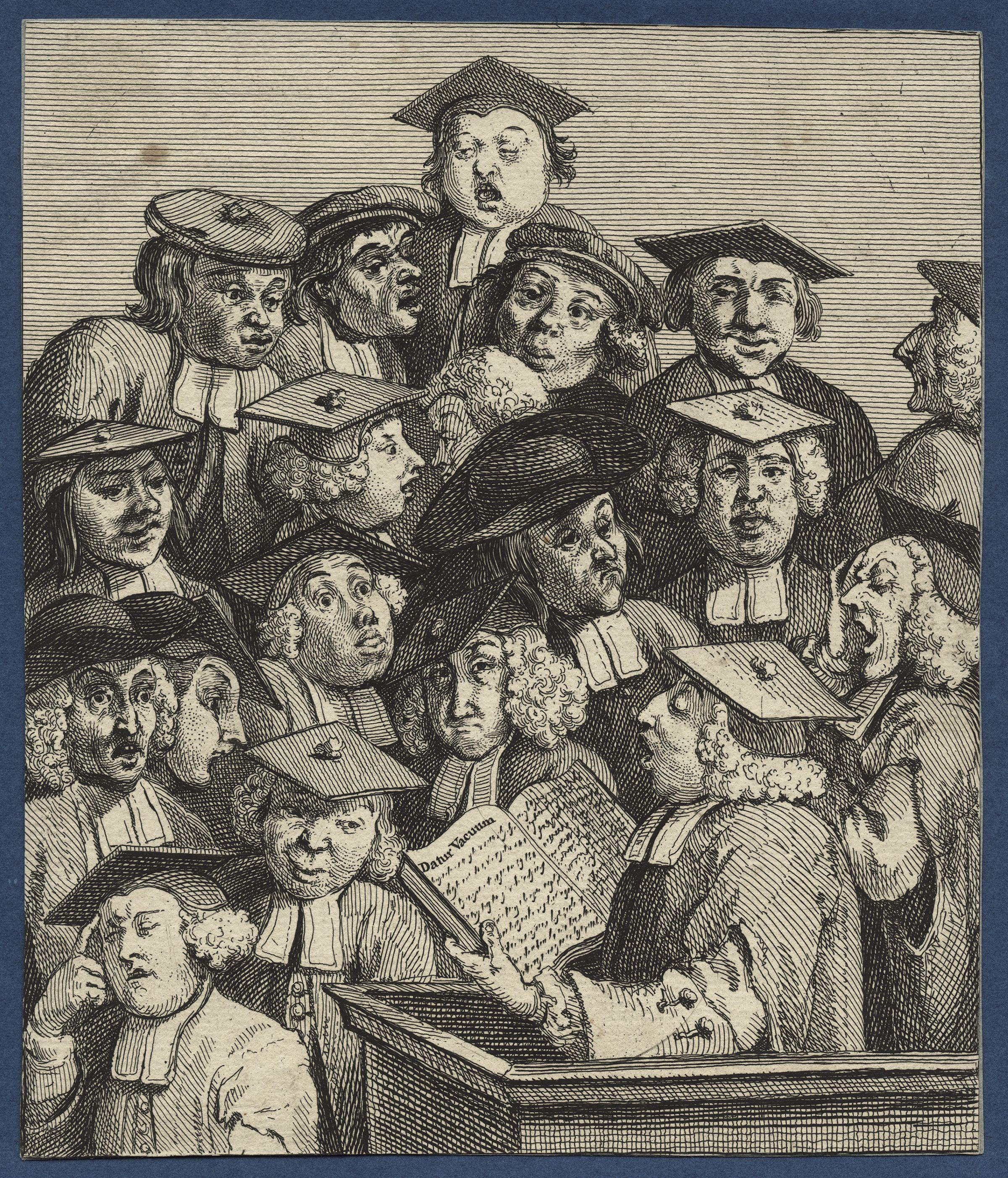 Scholars at a Lecture, by William Hogarth (died 1764). All images in this batch have been confirmed as author died before 1939 according to the official death date listed by the NPG.